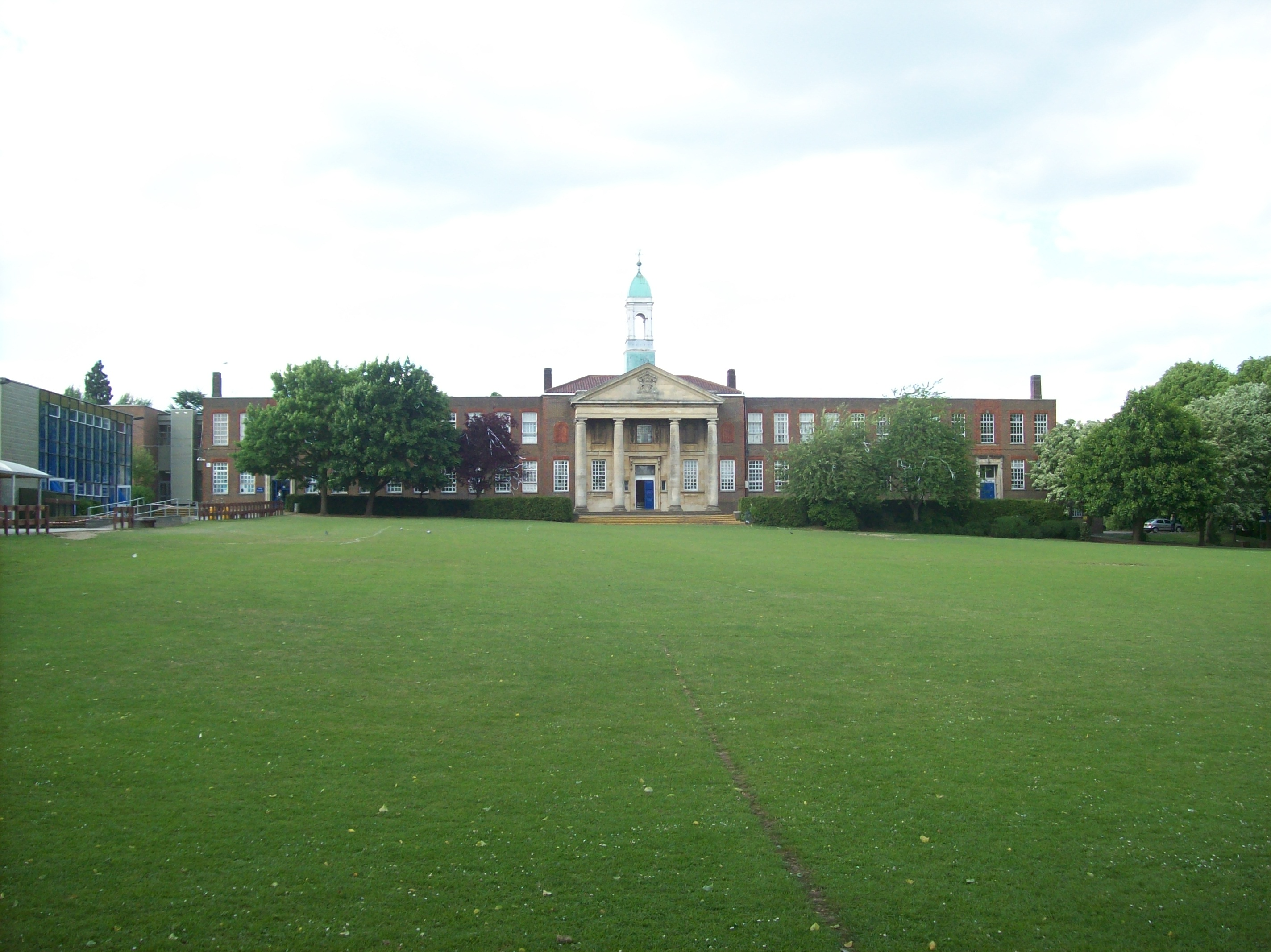 Front view of Main Block of The Hemel Hempstead School